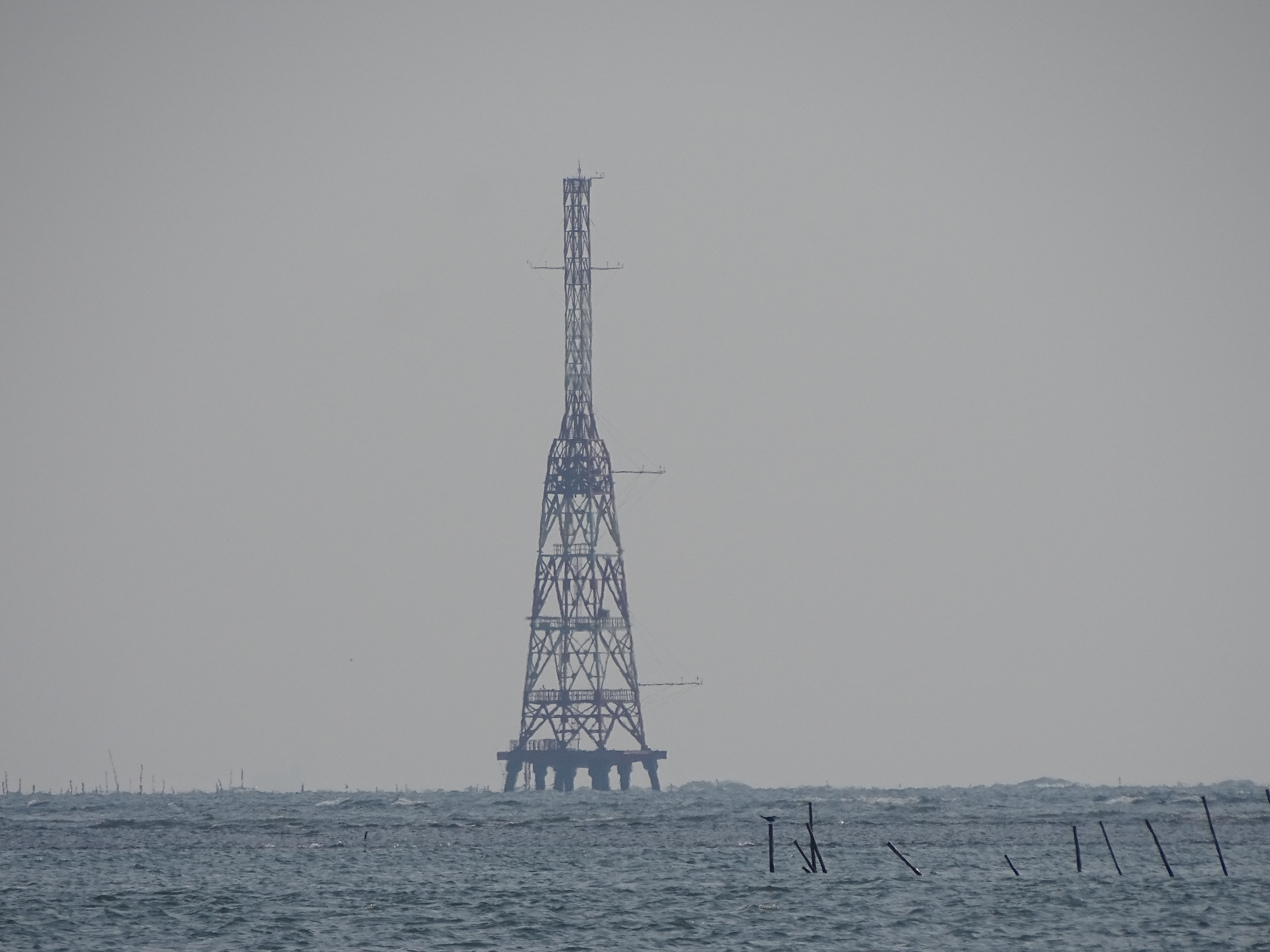 Wengangdui Lighthouse on the sea. 中文（台灣）: 在海上的塭港堆燈塔。